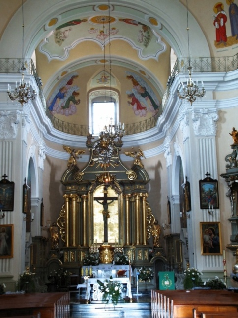 Morawica, Saint Bartolomeo Church, interior photography